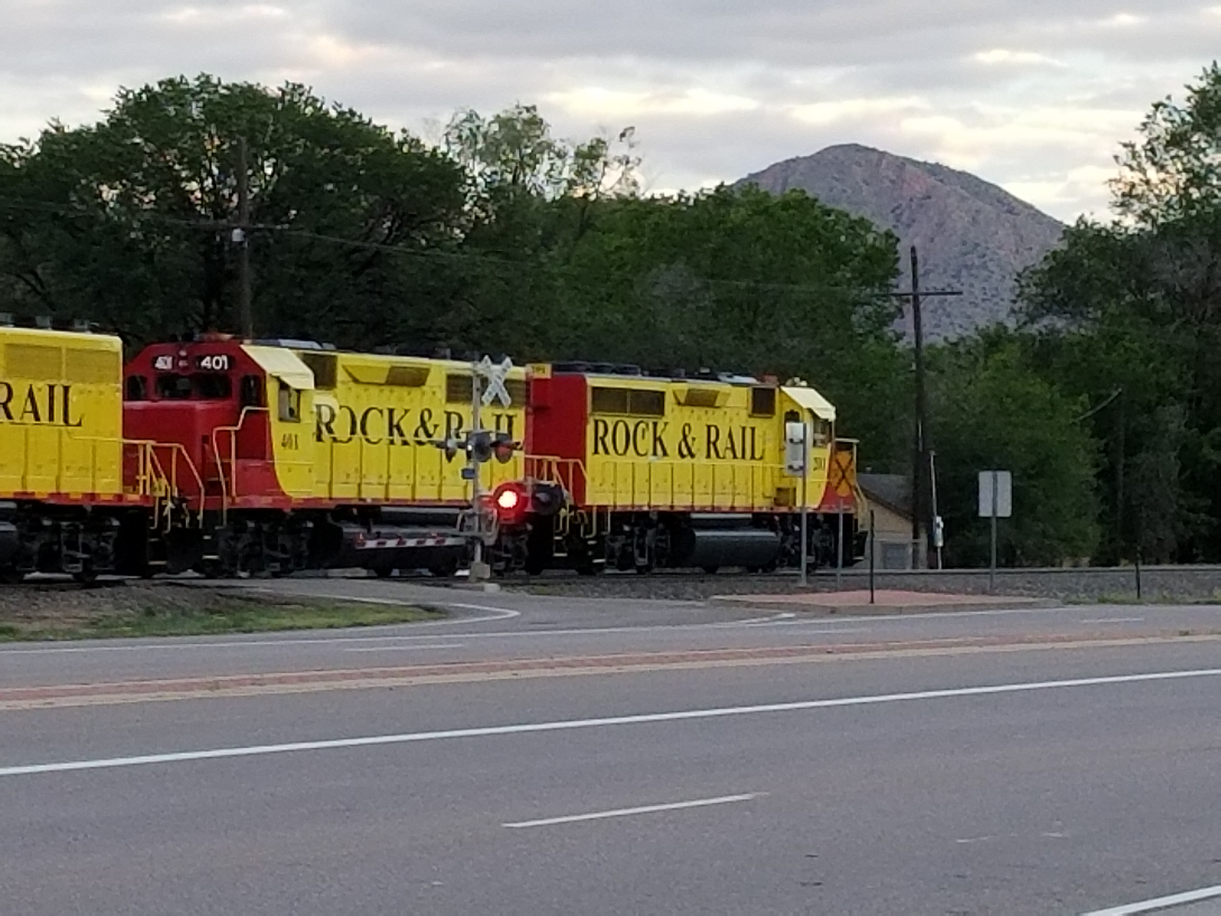 RRRR GP-40s in Cañon City, Colorado heading west.